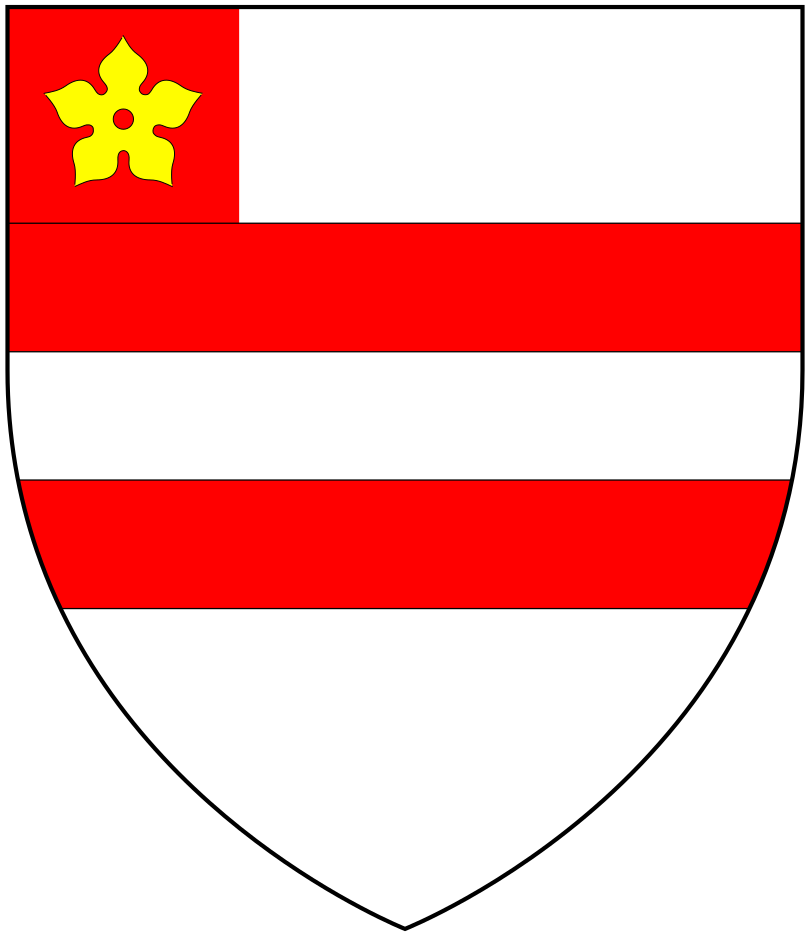 Arms of Preston of Upottery, Devon: Argent, two bars gules pn a canton of the last a cinquefoil or (Source: Vivian, Lt.Col. J.L., (Ed.) The Visitation of the County of Devon: Comprising the Heralds' Visitations of 1531, 1564 & 1620, Exeter, 1895, p.613) The Preston family of Devon was a junior branch of the de Preston family which during the reign of King Henry II (1154-1189) was seated at Preston Richard and Preston Patrick in Westmorland. On 1 April 1644 George Preston (of same ancient descent, same arms) was created a baronet "of Furness in the County of Lancaster". (Burke, Bernard, Genealogical and Heraldic History of the Extinct and Dormant Baronetcies ..., 2nd ed, 1844, pp.424 et seq[1])